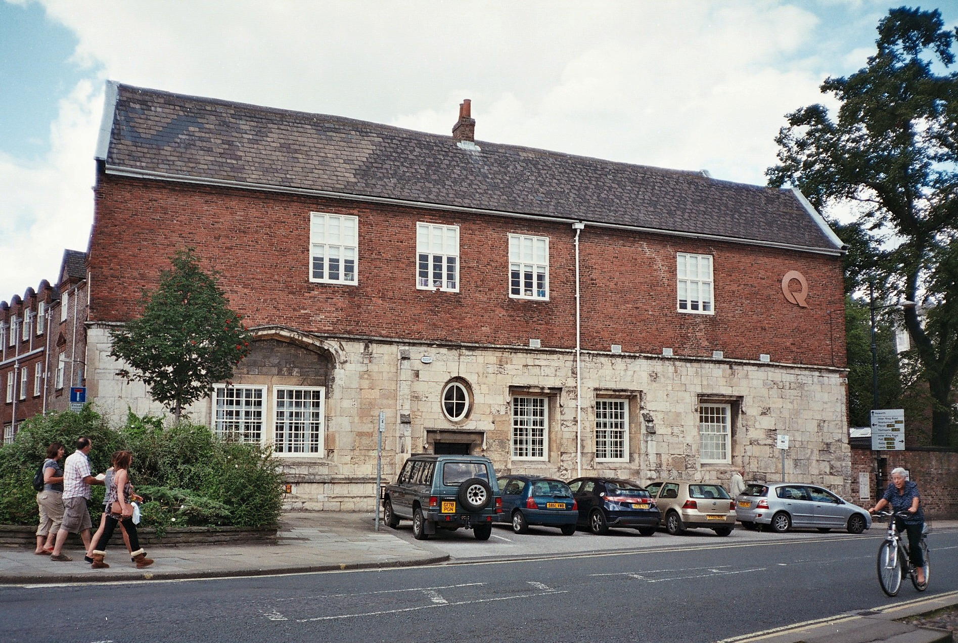 View of St Anthony's Hall, Peasholme Green, York